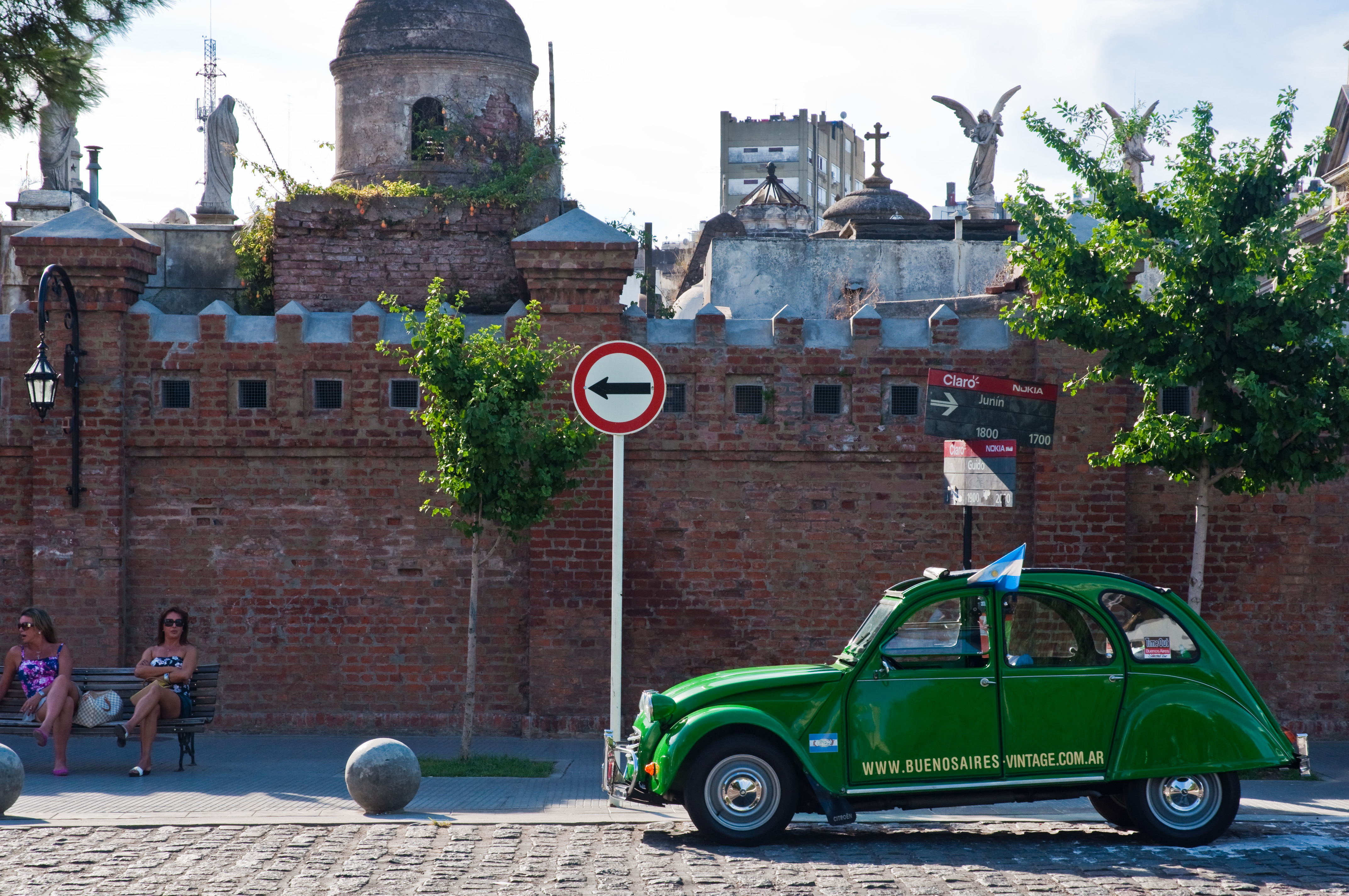 Argentine Citroën 3cv in funky Buenos Aires